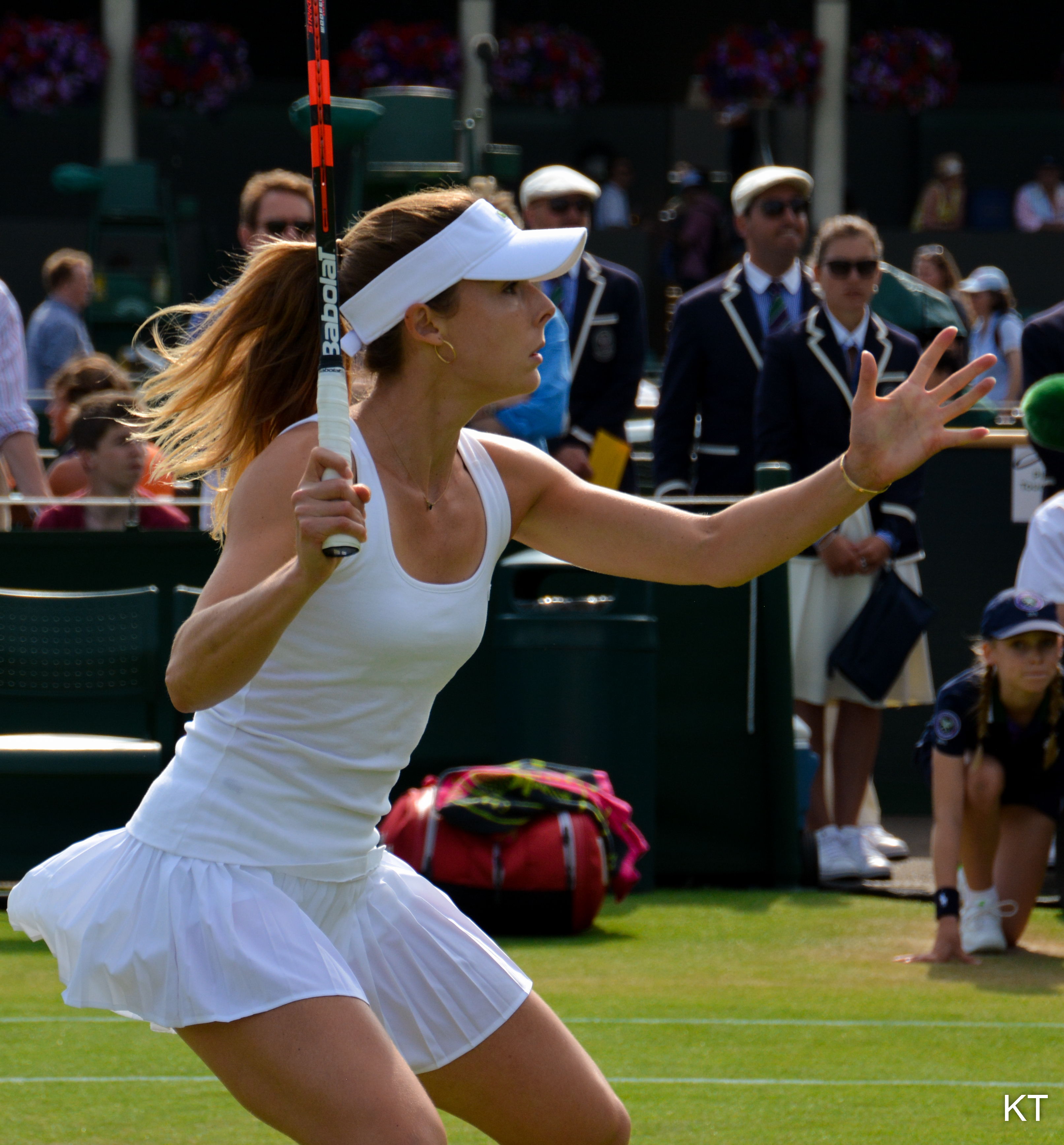 Day 5 of Wimbledon 2015.